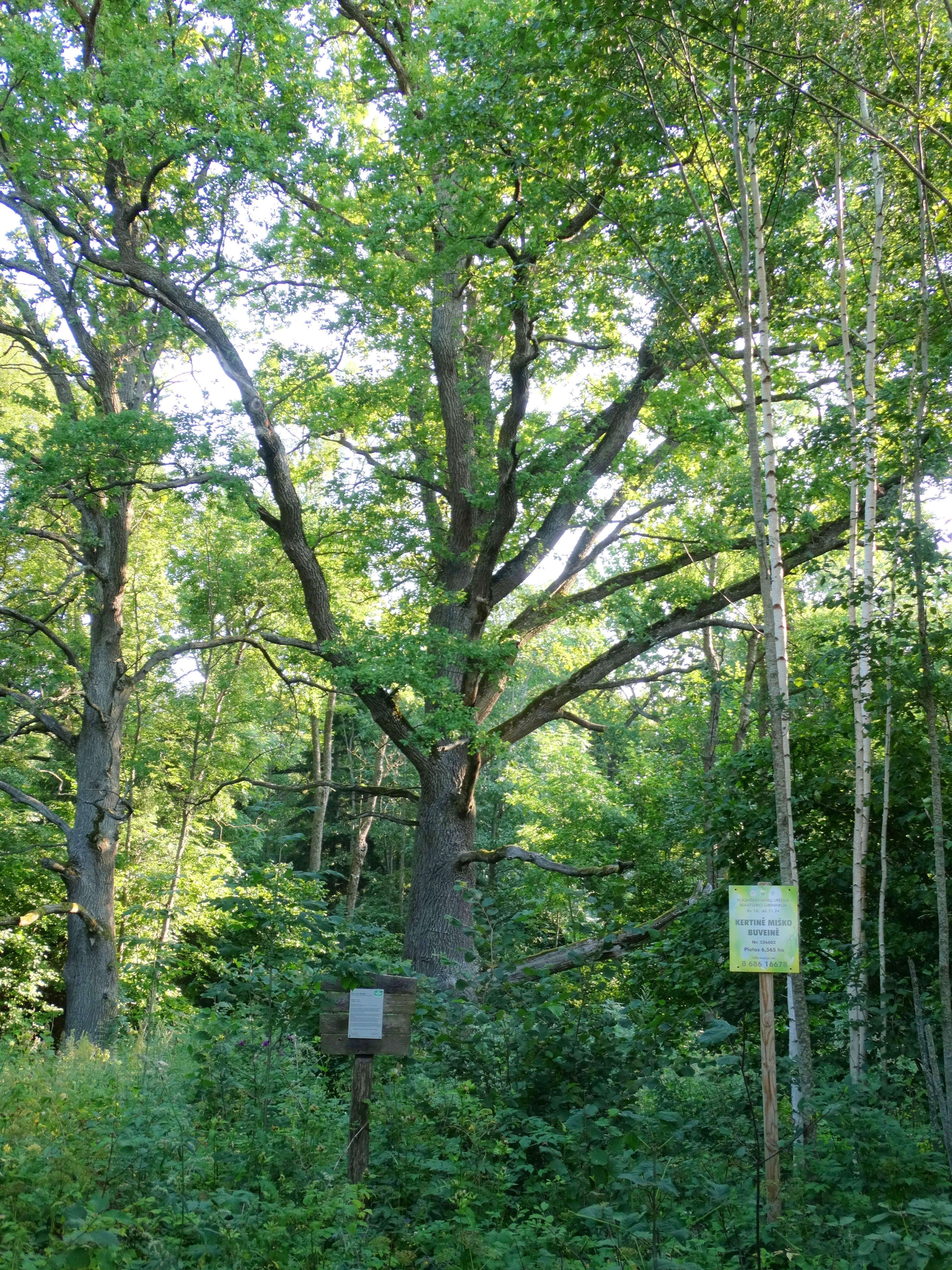 Beržynė forest oak, Joniškis District, Lithuania